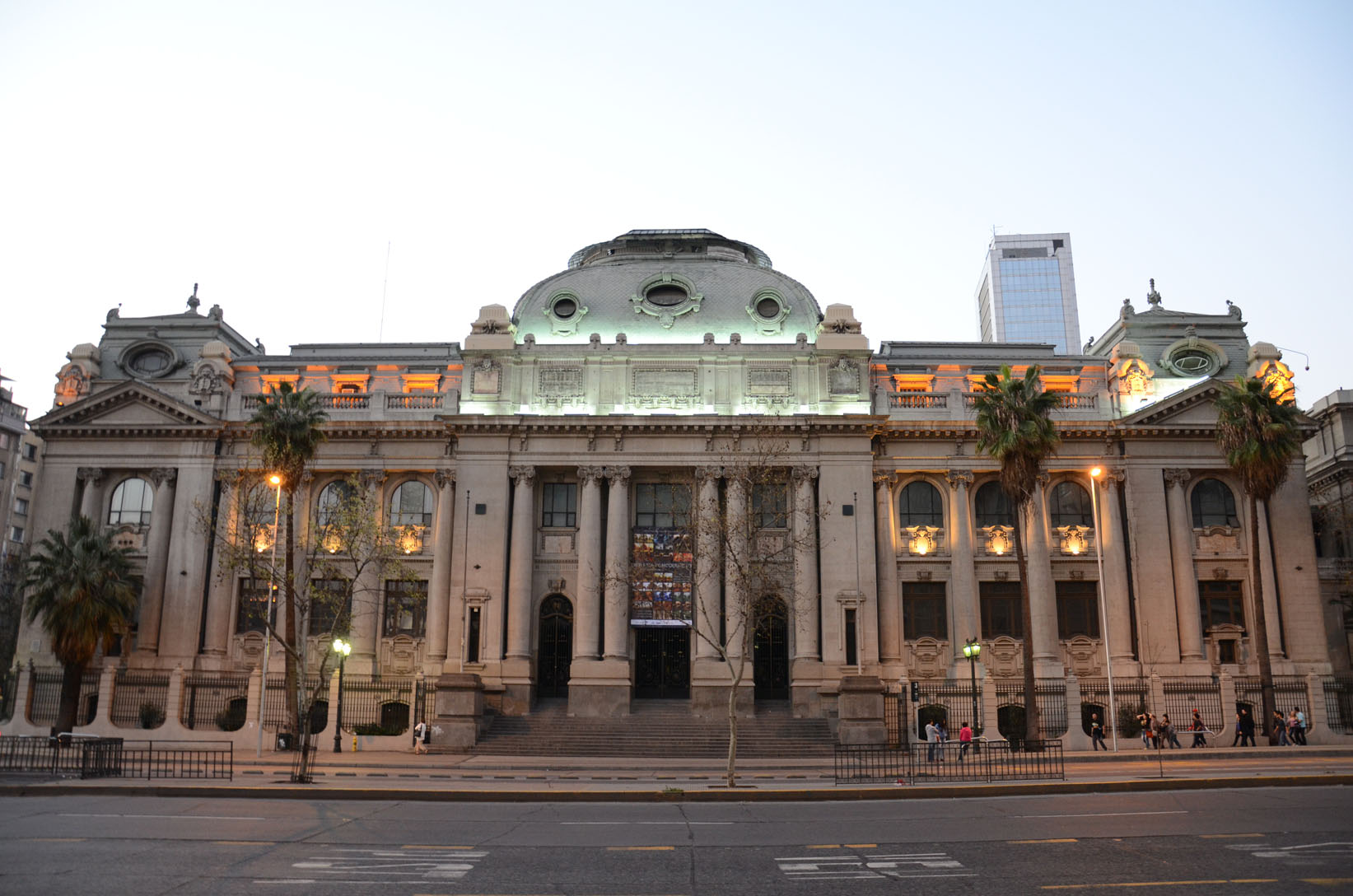 This is a photo of a national monument in Chile: 102